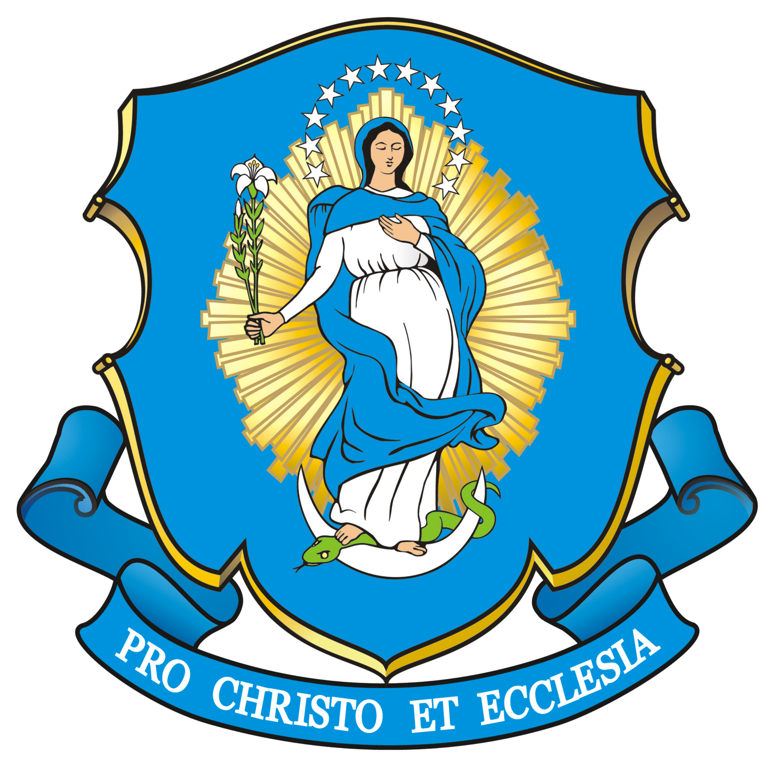 New rendition of the Coat of Arms of the Congregation of Marian Fathers, prepared for the 100 anniversary of the rebirth and reform of the Congregation